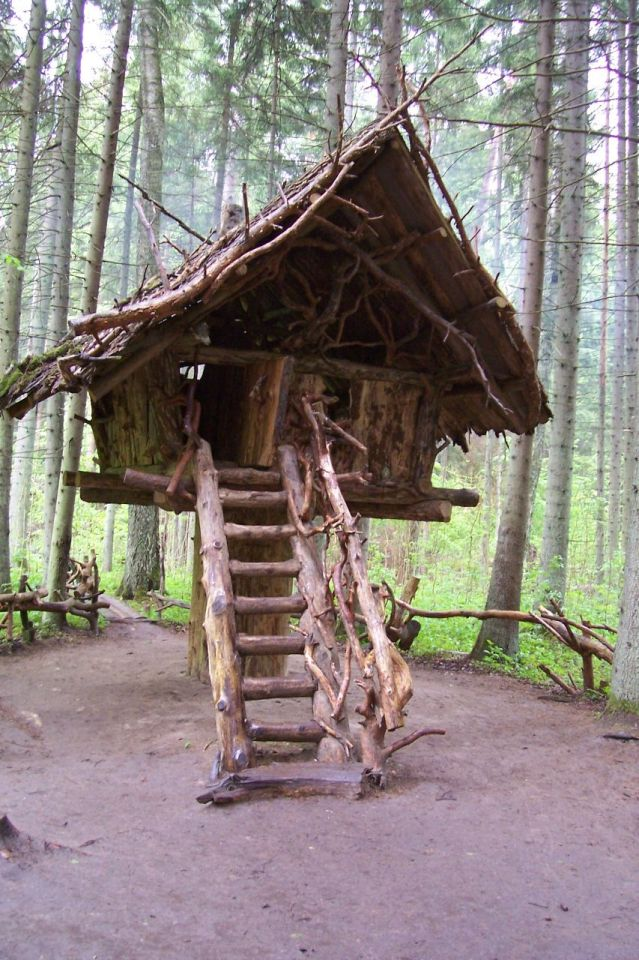 Une maison de sorcières dans le parc de Tervete (Lettonie) A witch house in Tervete's park (Latvia) I took the photo by myself in Tervete park, I think there is no low protecting the sculptures in the park as cameras are not prohibited.